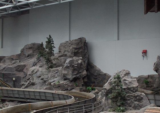 Harmon Killebrew's red bleacher seat showing where his 520-foot (160 m) home run was hit, overlooking the flume ride at the MOA's Nickelodeon Universe in Bloomington, Minnesota.